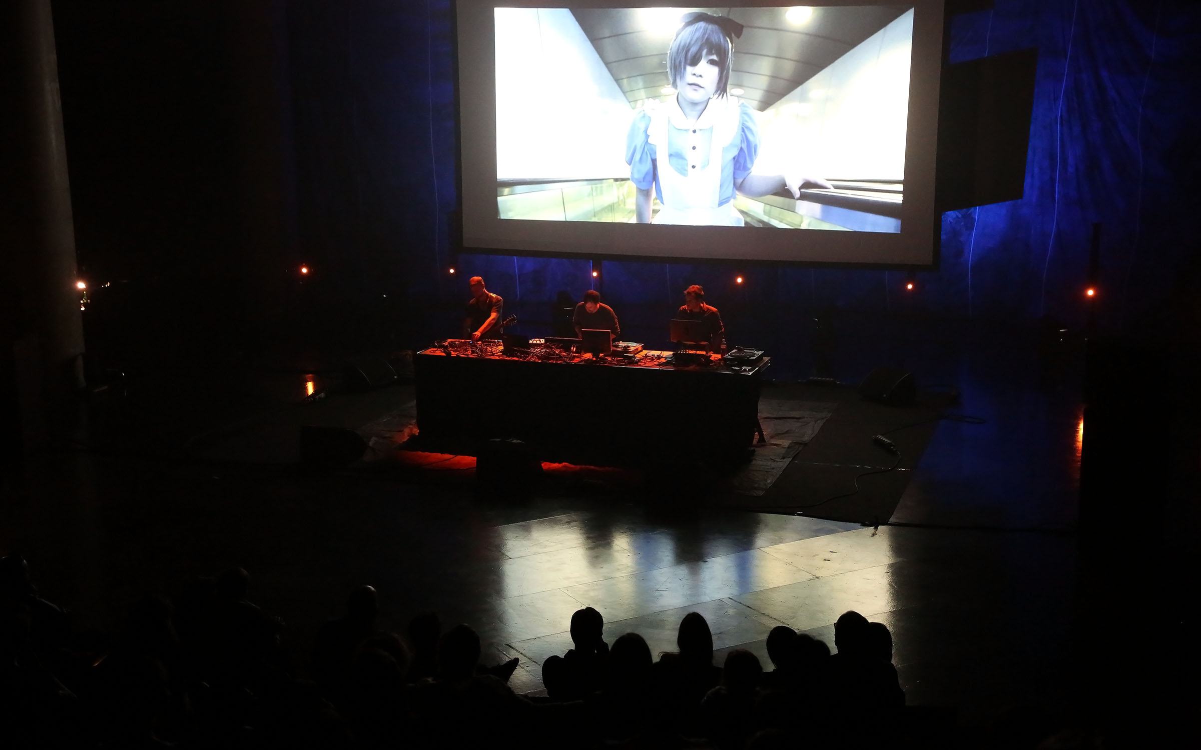 Timo Novotny, Markus Kienzl and Wolfgang Frisch performing live to Novotny's film Trains of Thoughts at Odeon theater during Waves Vienna Music Festival & Conference 2013 in Vienna, Austria.